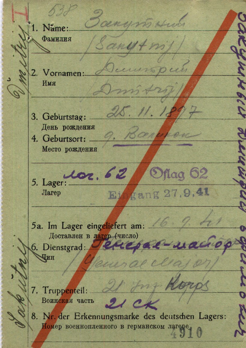 Prisoner of War Identity Card of Major-General of the Red Army Dmitry Efimovich Zakutniy (1897-1946)